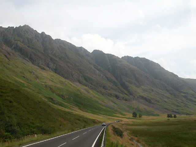 Aonach Eagach. Pass of Glen Coe, Scotland.